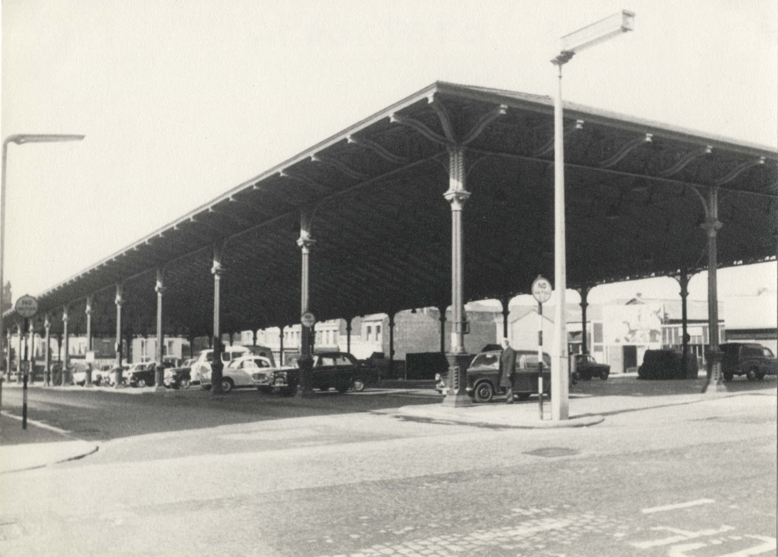 Preston Market in the 1960s. The covered market was constructed in the 1870s.